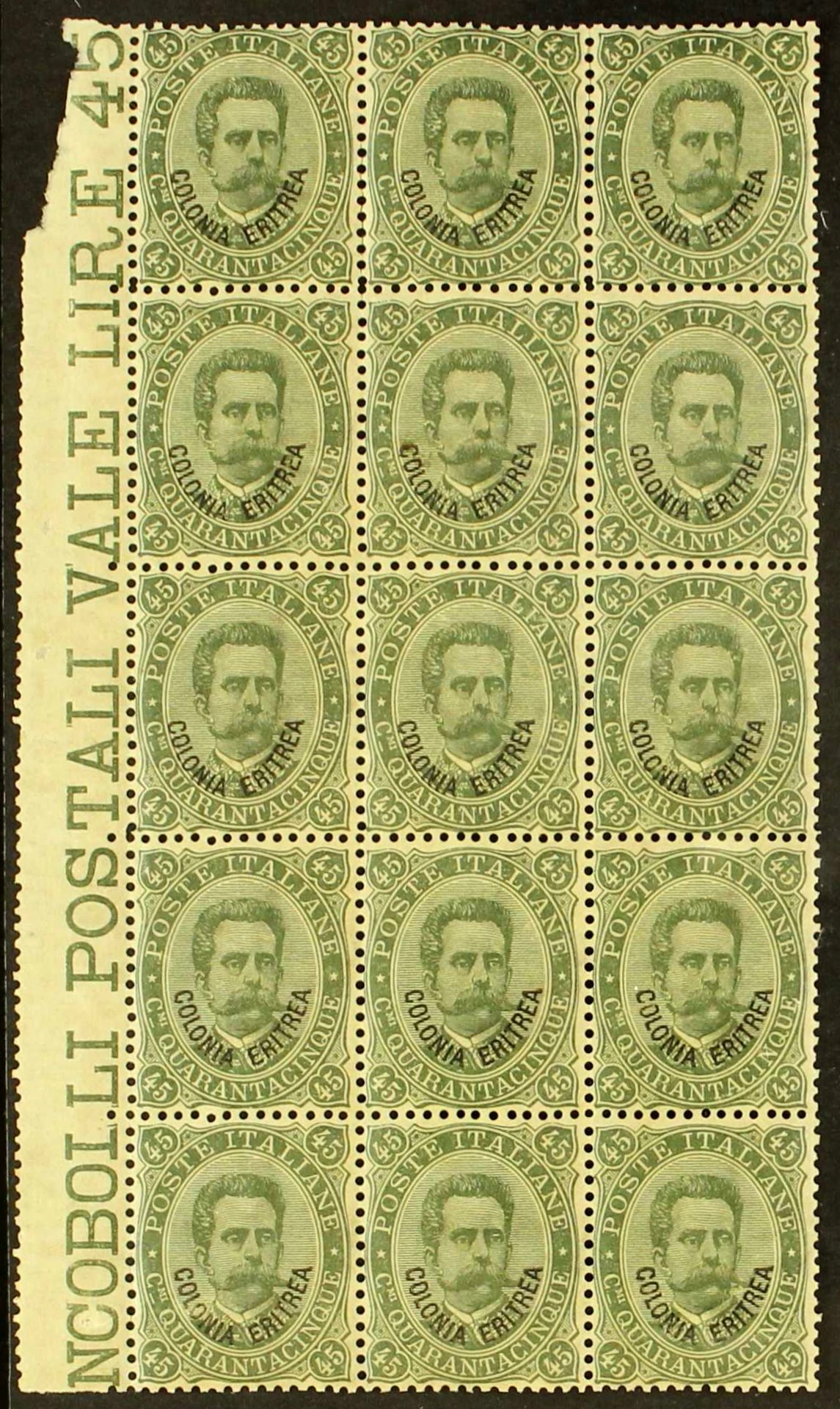 Italian stamps overprinted for Eritrea 1893 45c stamp block.